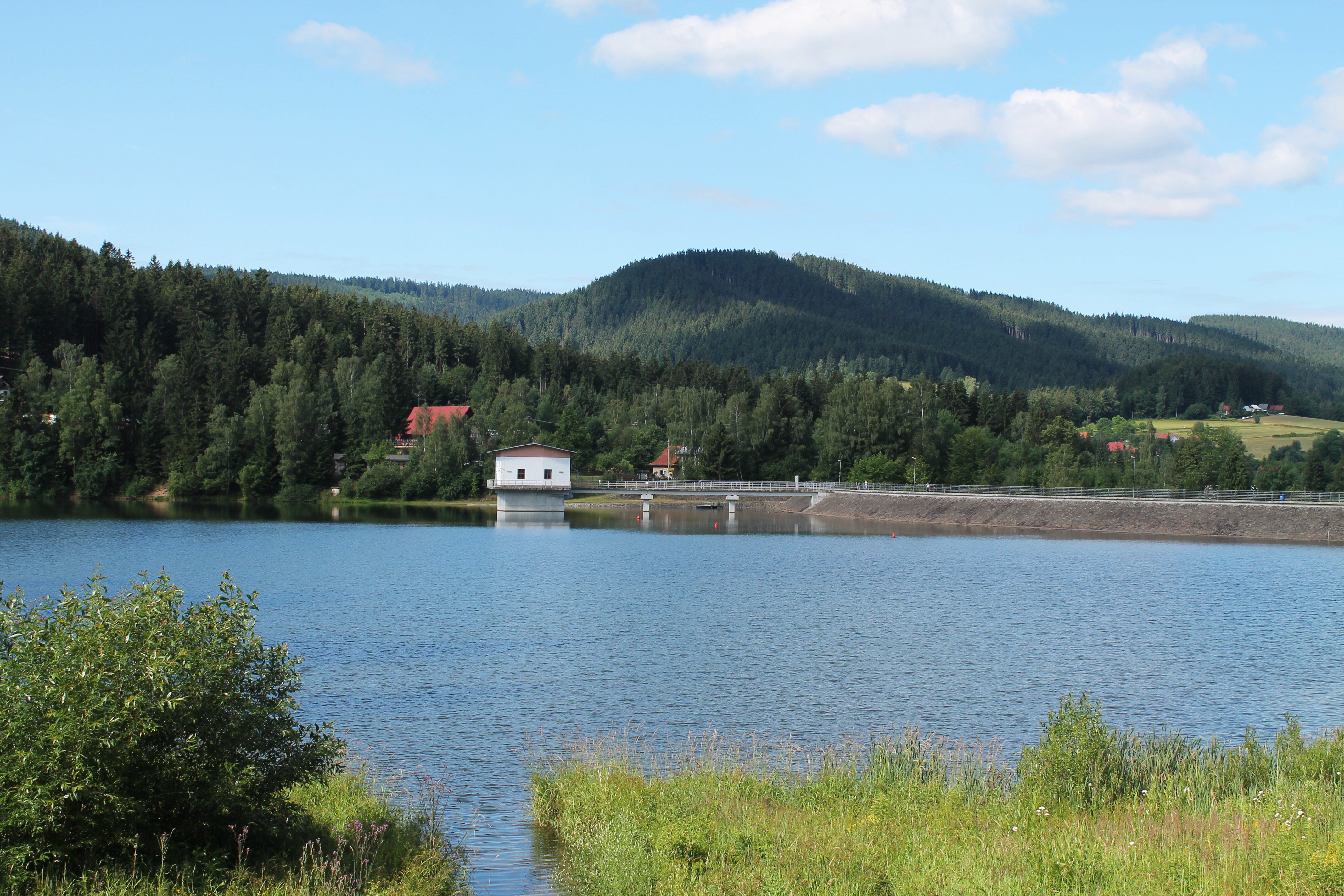 Horní Bečva Reservoir, Horní Bečva, Vsetín District, Czech Republic